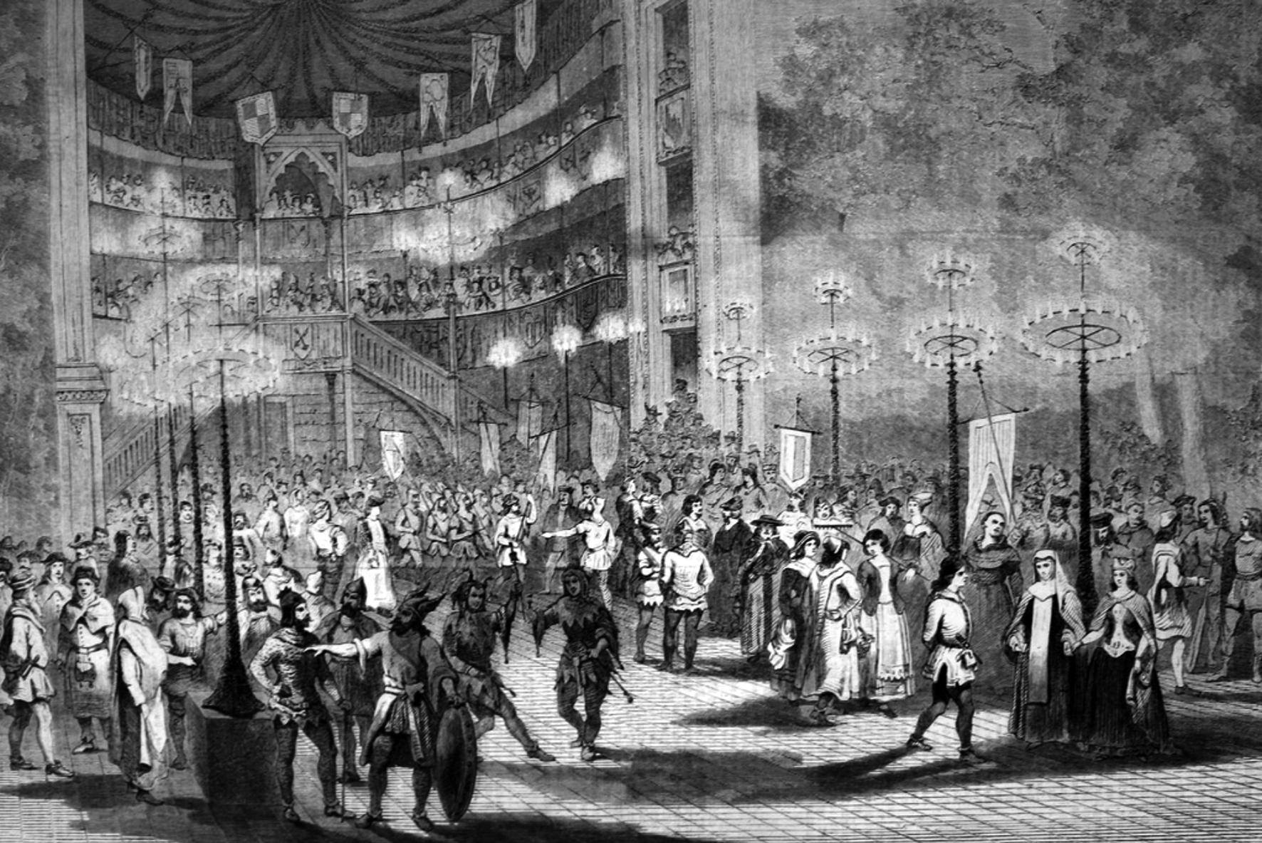 Lithograph of a historical masquered ball of the Künstlerverein (“artists’ club”) at the Bremen theater in 1861, original drawing by Johann Friedrich Hennings (1838–1899).